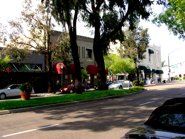 Grand Avenue, Downtown Escondido. Photo taken by David McGovern